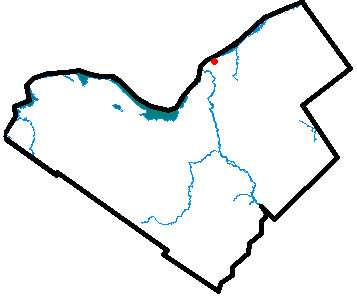 Locator map for Manor Park, Ottawa